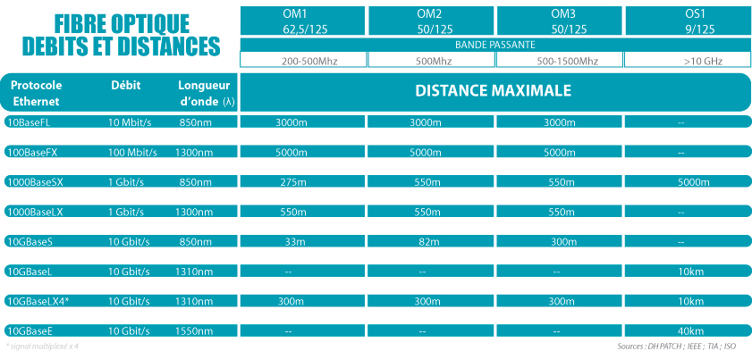 Bit rates and lengths for fiber optics